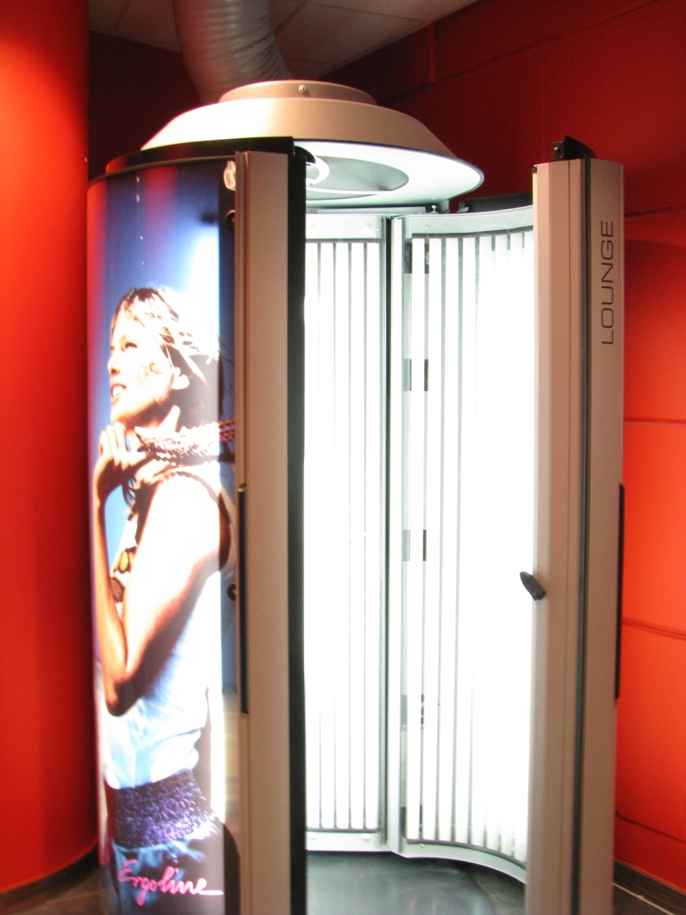 Tanning bed